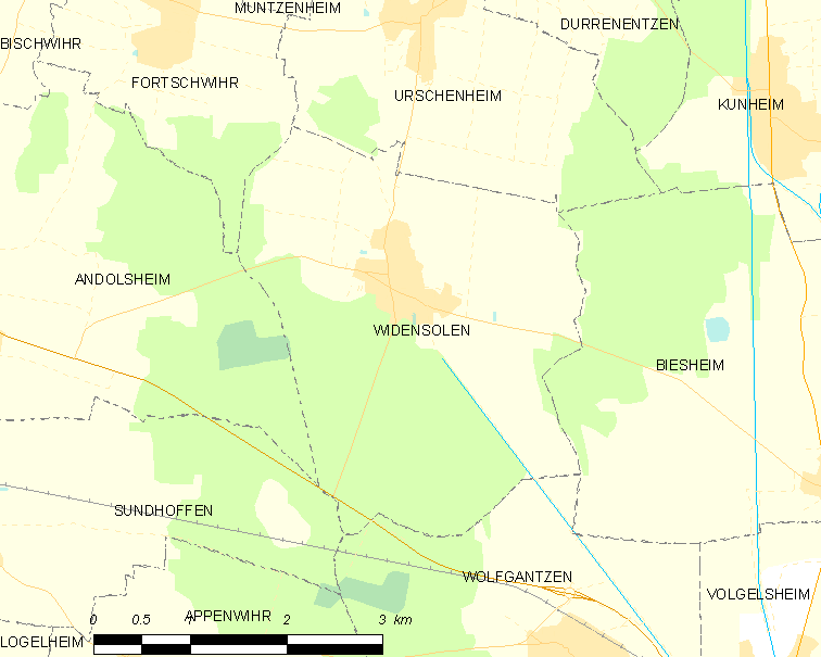 Map of French municipality